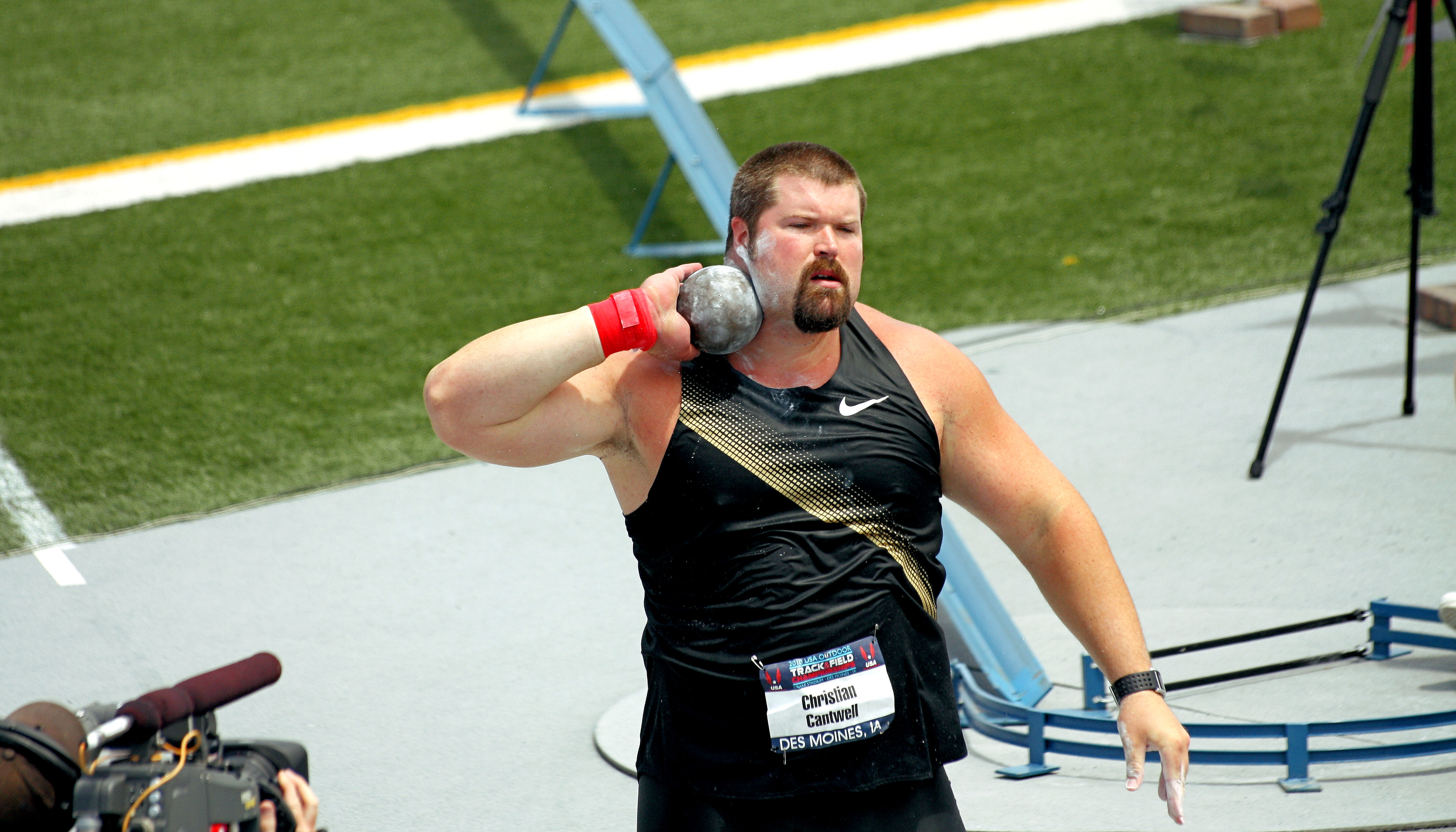 2008 Olympic silver medalist Christian Cantwell is the men's shot put national champion.